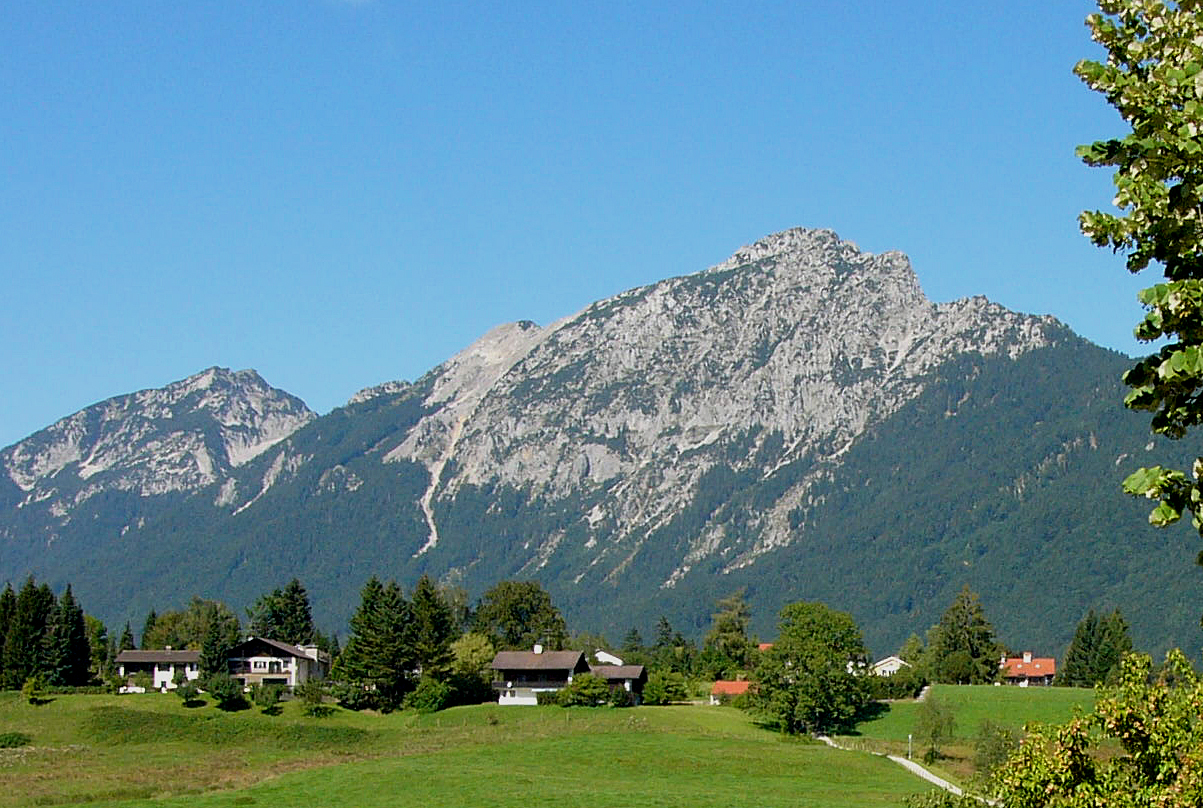 Hochstaufen, mountain in Bavaria, Germany